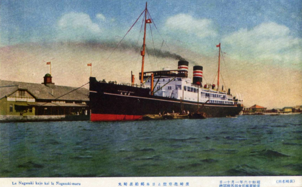 Postcard of the NYK Line ship Nagasaki Maru at a pier in Nagasaki